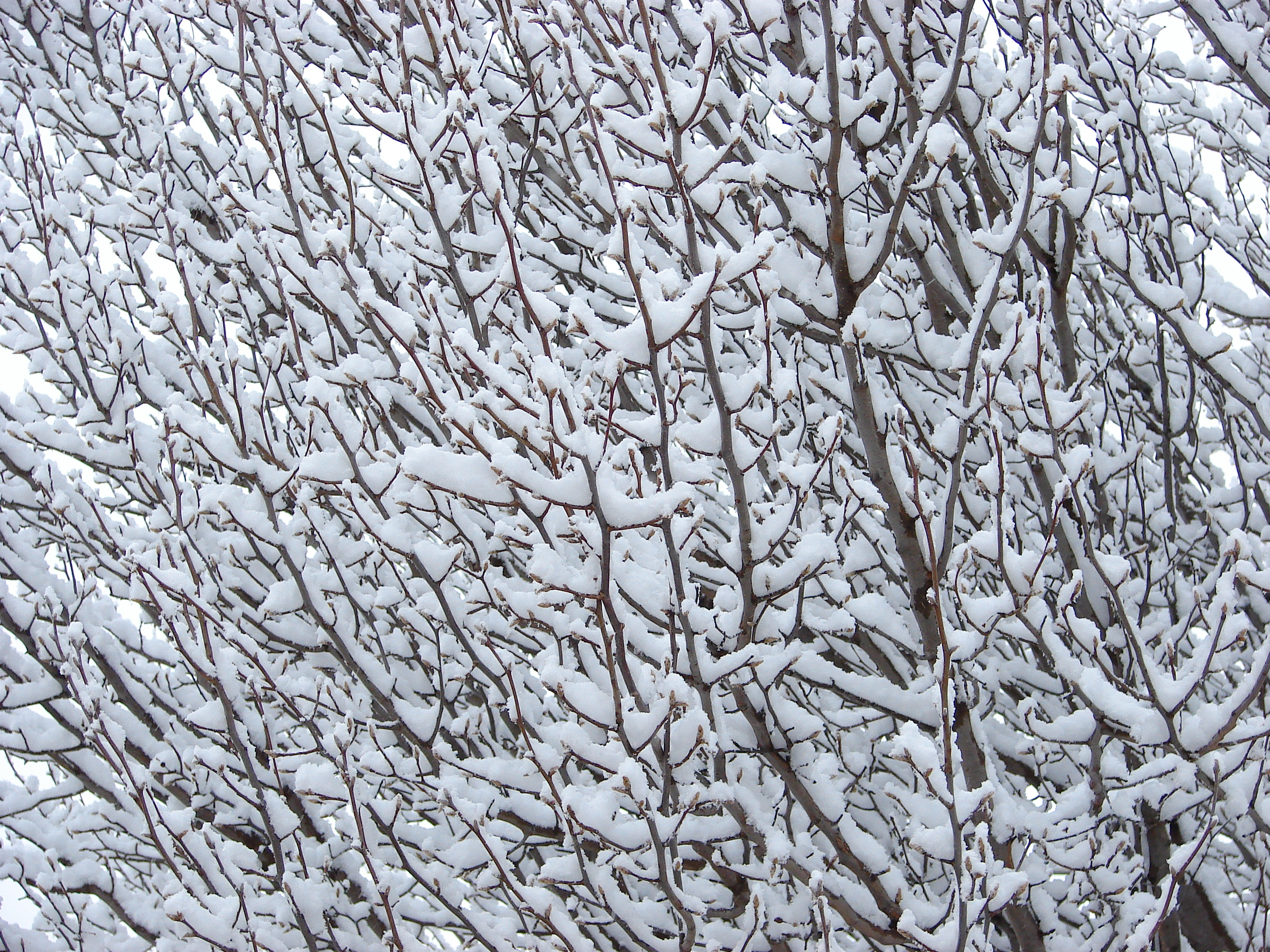 Snow on tree branches.